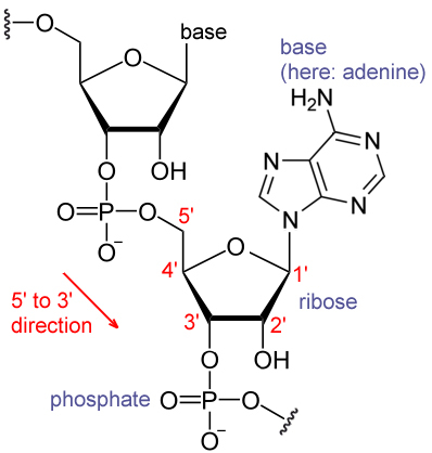 Chemical structure of RNA Licensing References Nelson DL, Cox MM. Lehninger Principles of biochemistry, 2nd ed., chapter 8. W.H. Freeman.